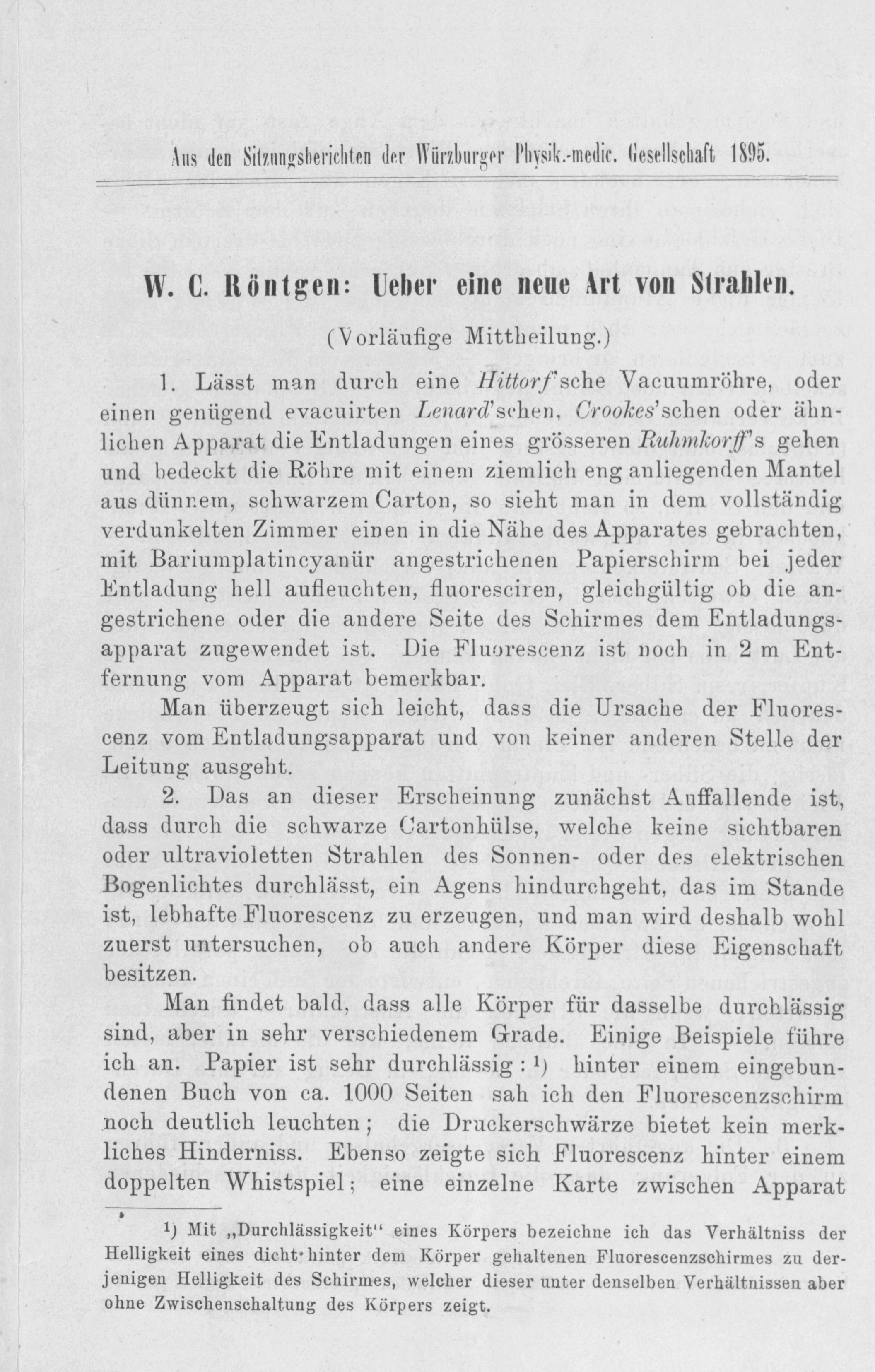 This is a scan of the historical document: Über eine neue Art von Strahlen